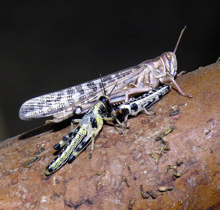 A Desert Locust, with its yellowish nymphs. A threat to agriculture in Africa and the Mid East. London Zoo.